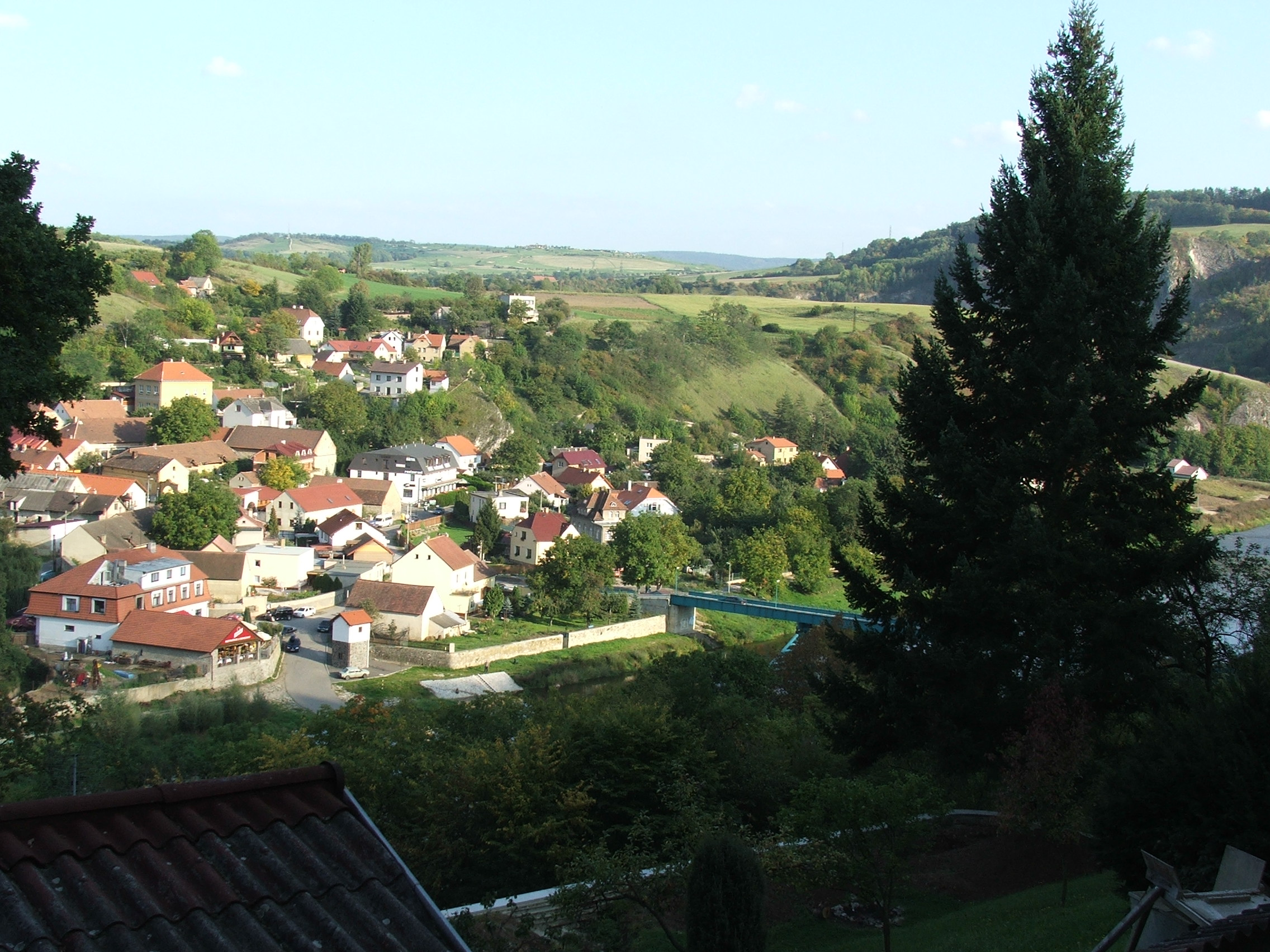 Srbsko, Central Bohemian Region, Czechia.